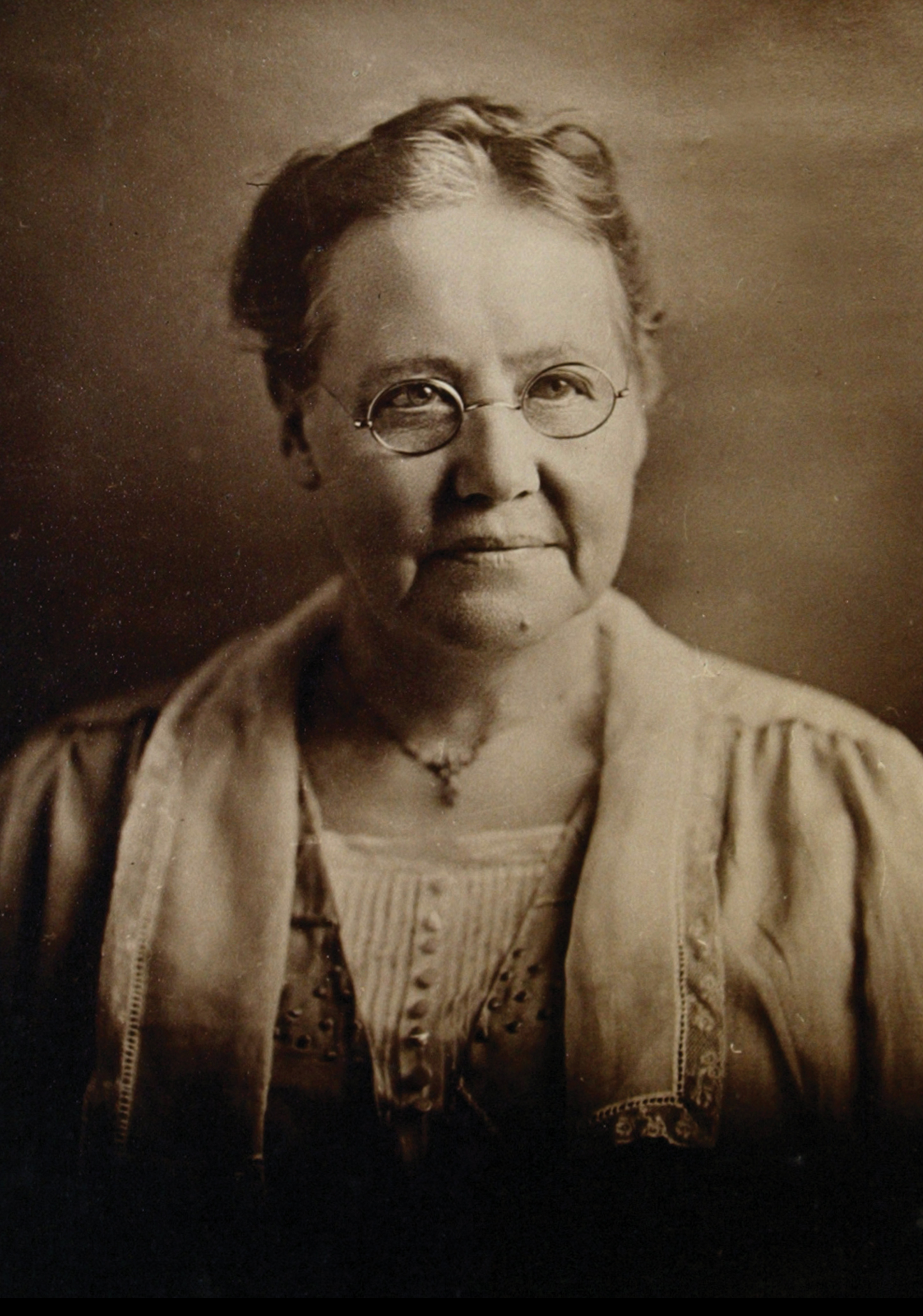 Portrait of Sophia Blackmore